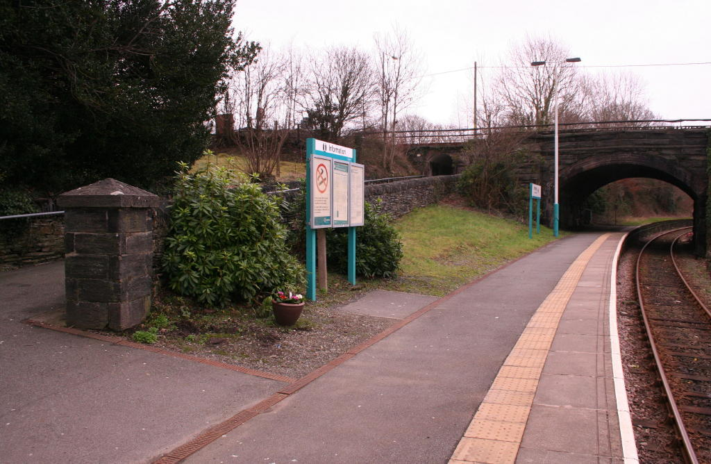 At Minffordd, the National Rail (Arriva Trains) platform looking south. On the left is the ramp to the subway under the narrow gauge Ffestiniog Railway. The disused southern portion of the platform can be seen under the bridge.